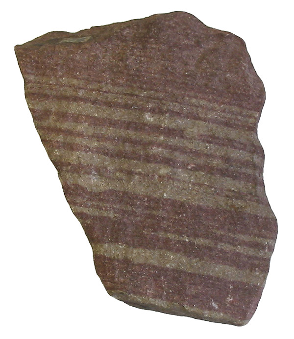 Photographer: Siim Sepp Date of the creation: 20th April, 2005.